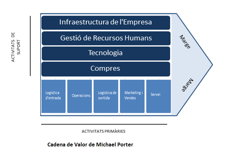 Michael Porter's Value Chain, described by Michael Porter in his 1985 best-seller, Competitive Advantage: Creating and Sustaining Superior Performance